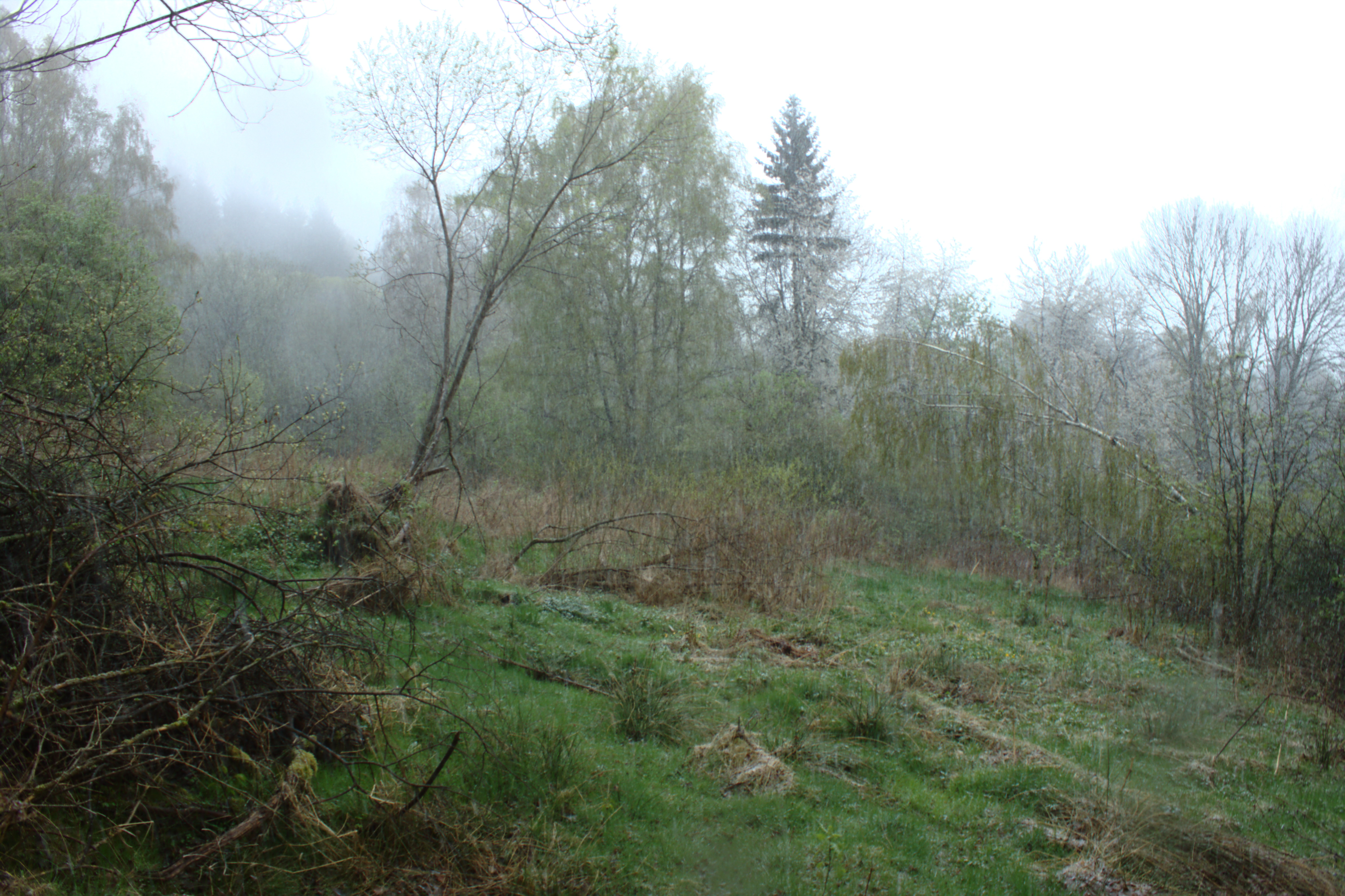 Datelovská strž nature monument during an Easter snow storm, Plzeň Region, CZ